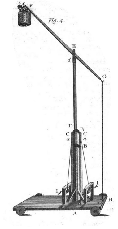 Fig 4 of Plate III: Nicholas Collin: Drawing of a Machine for saving Persons from the upper Stories of a House on fire.